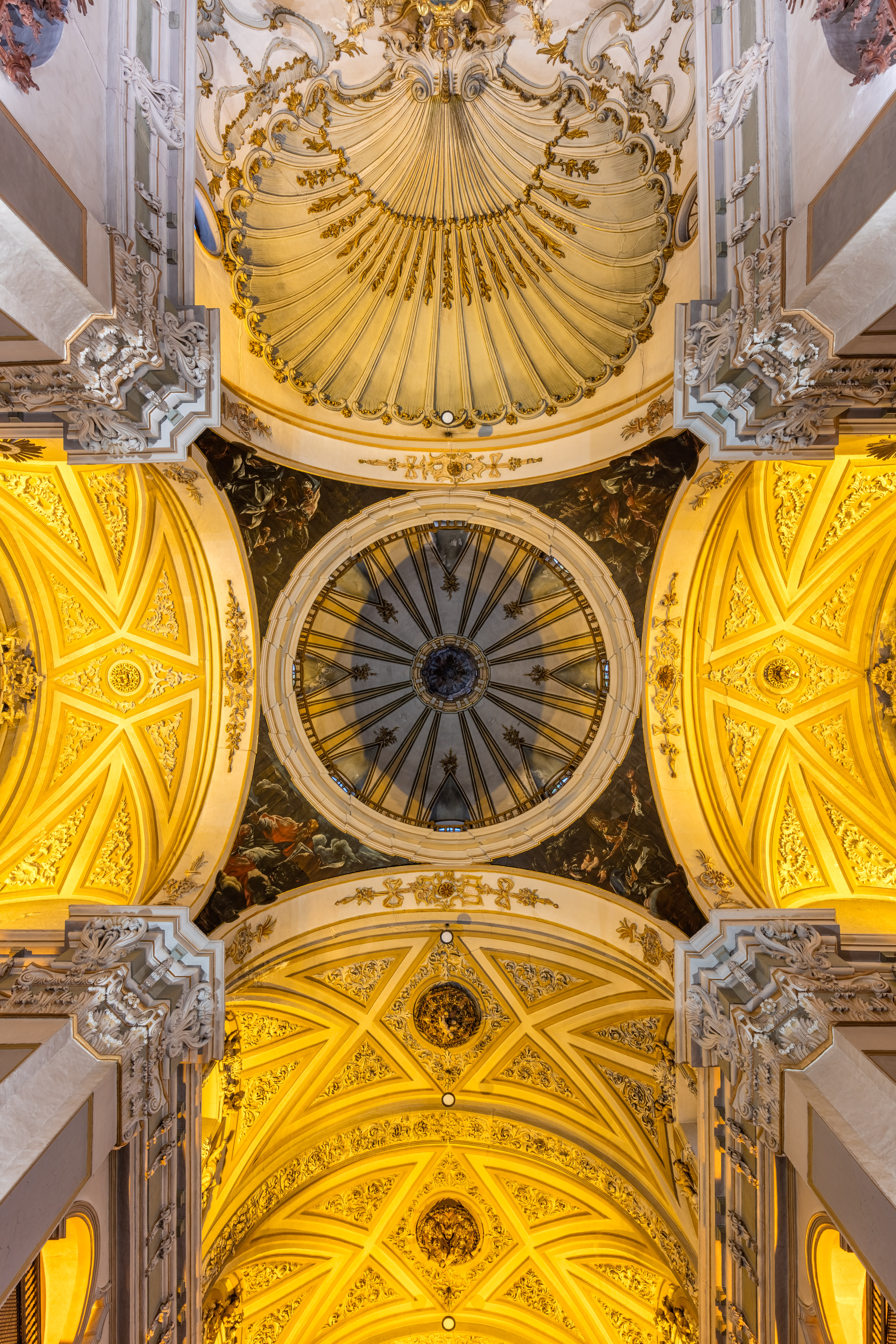 Church of San Juan el Real, Calatayud, Spain